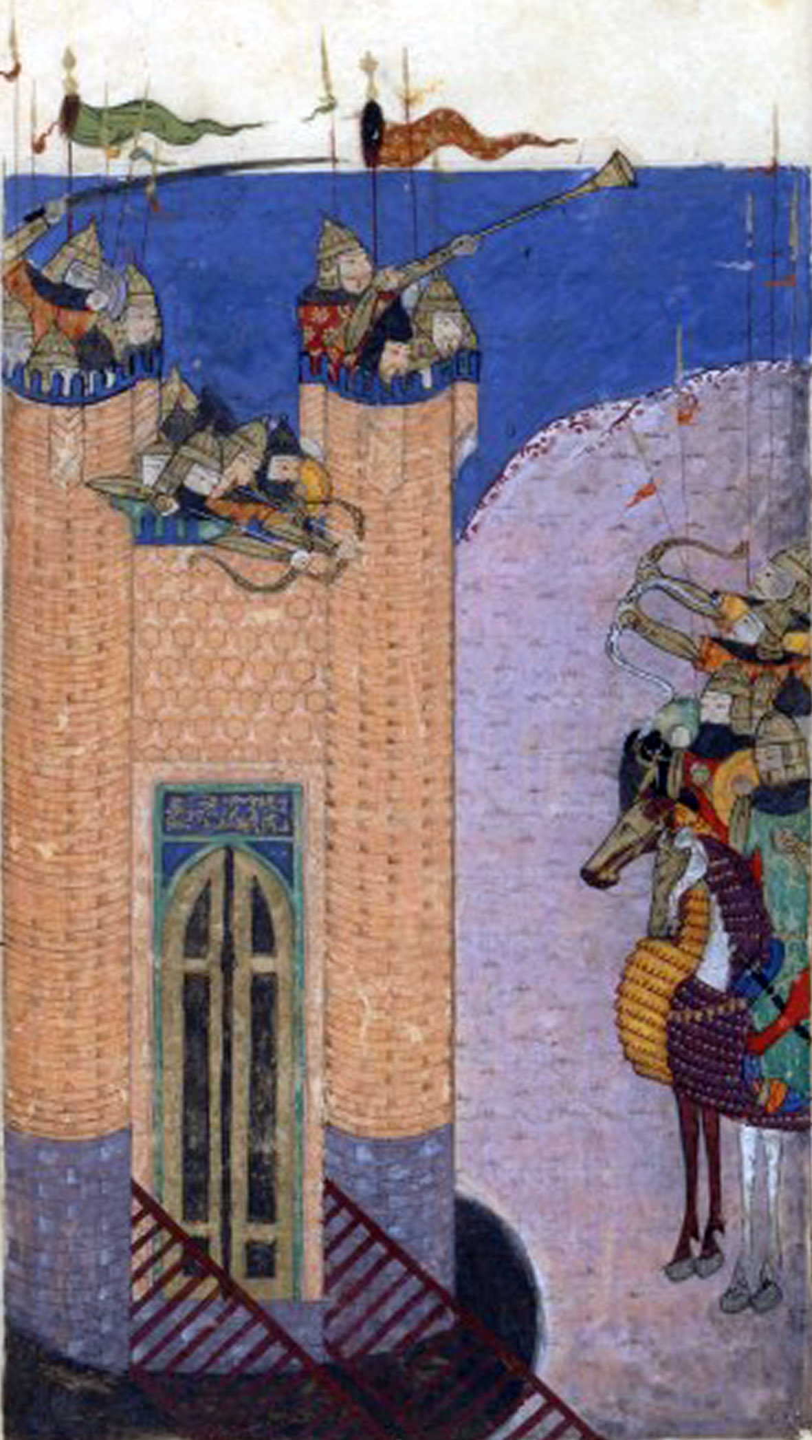 Siege of Alamut (1256). Tarikh-i Jahangushay-i Juvaini.